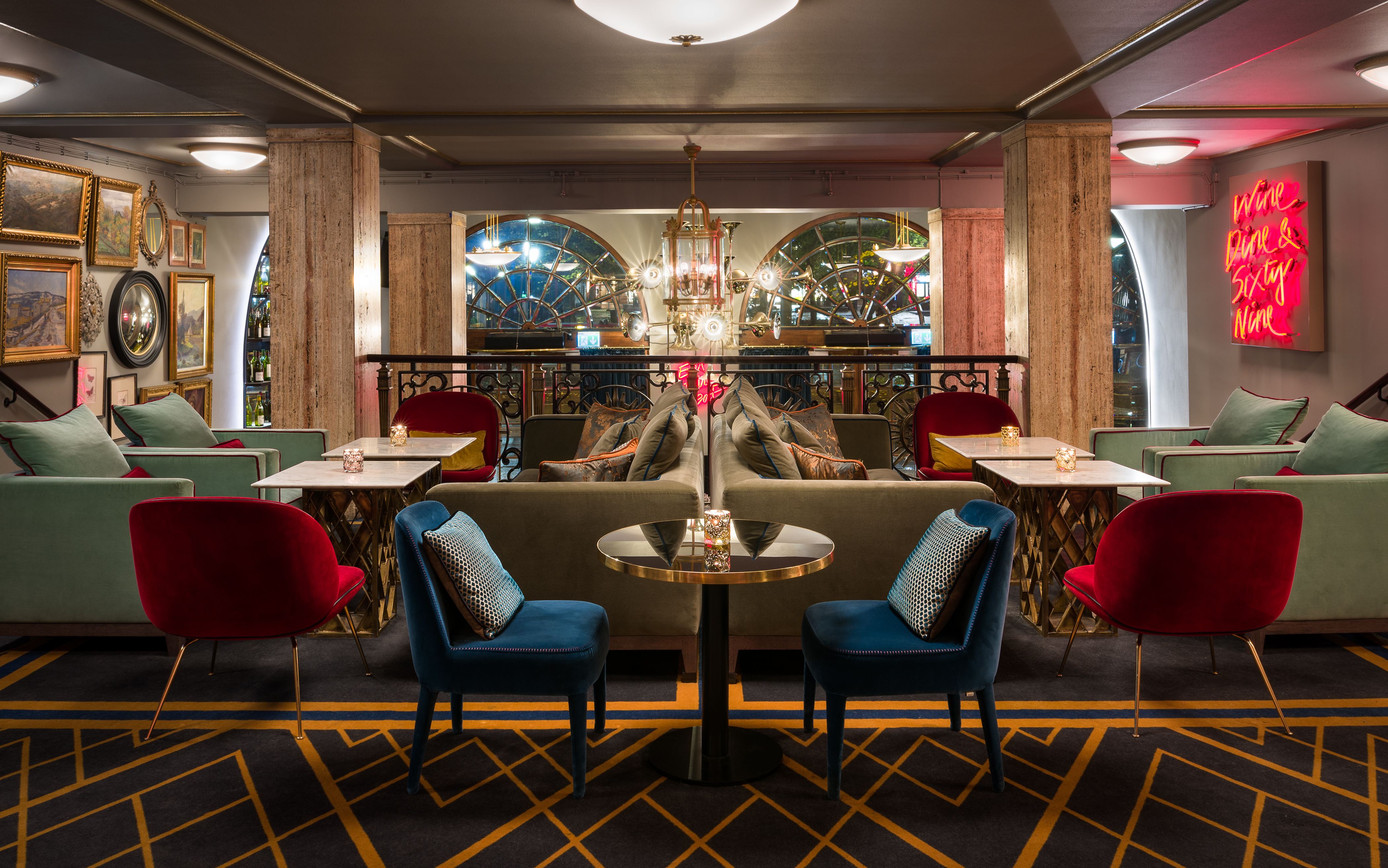 Lobby / mezzanine at Hotel Christiania Teater